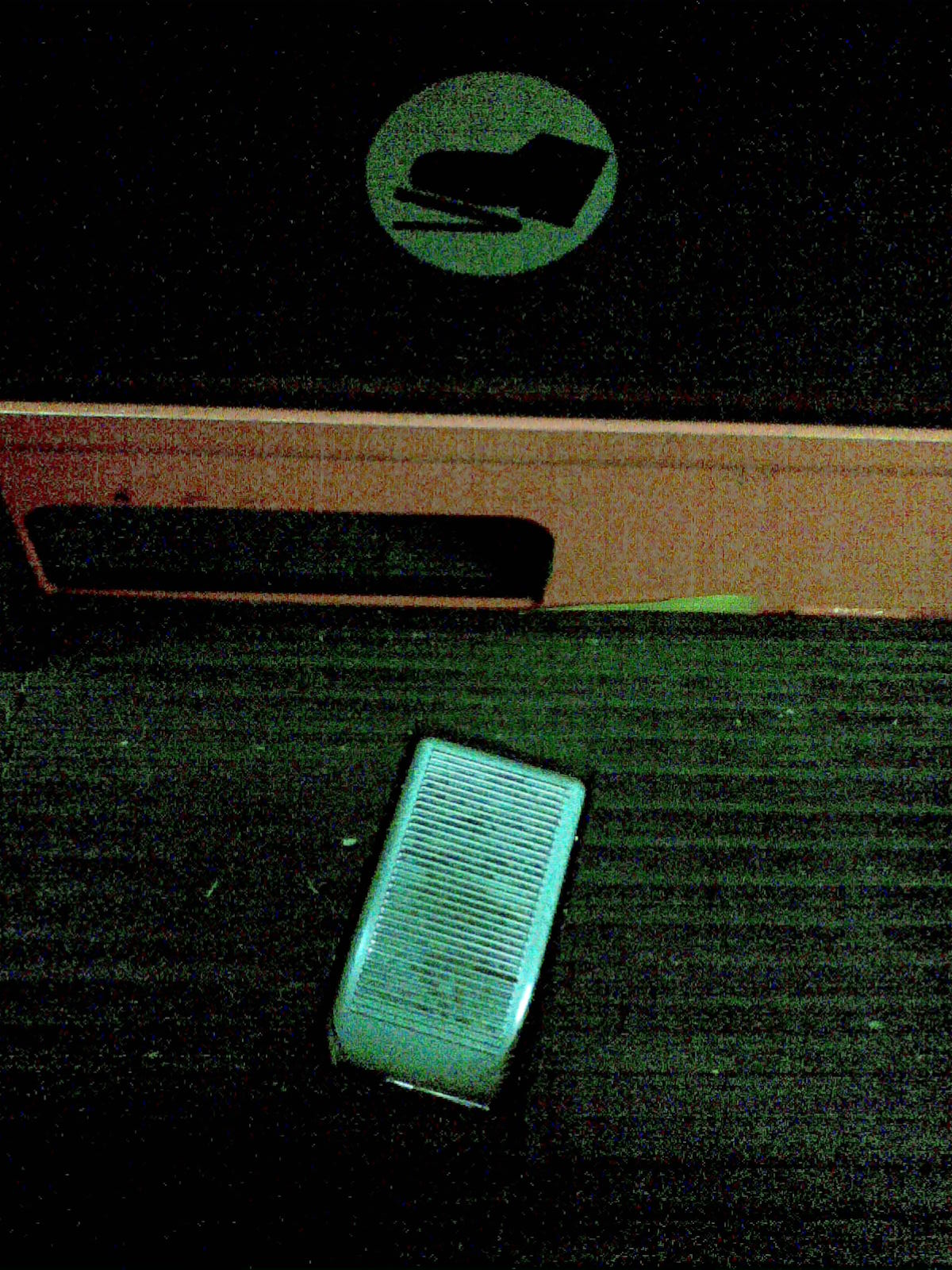 Dead man's switch of a Linde high altitude truck